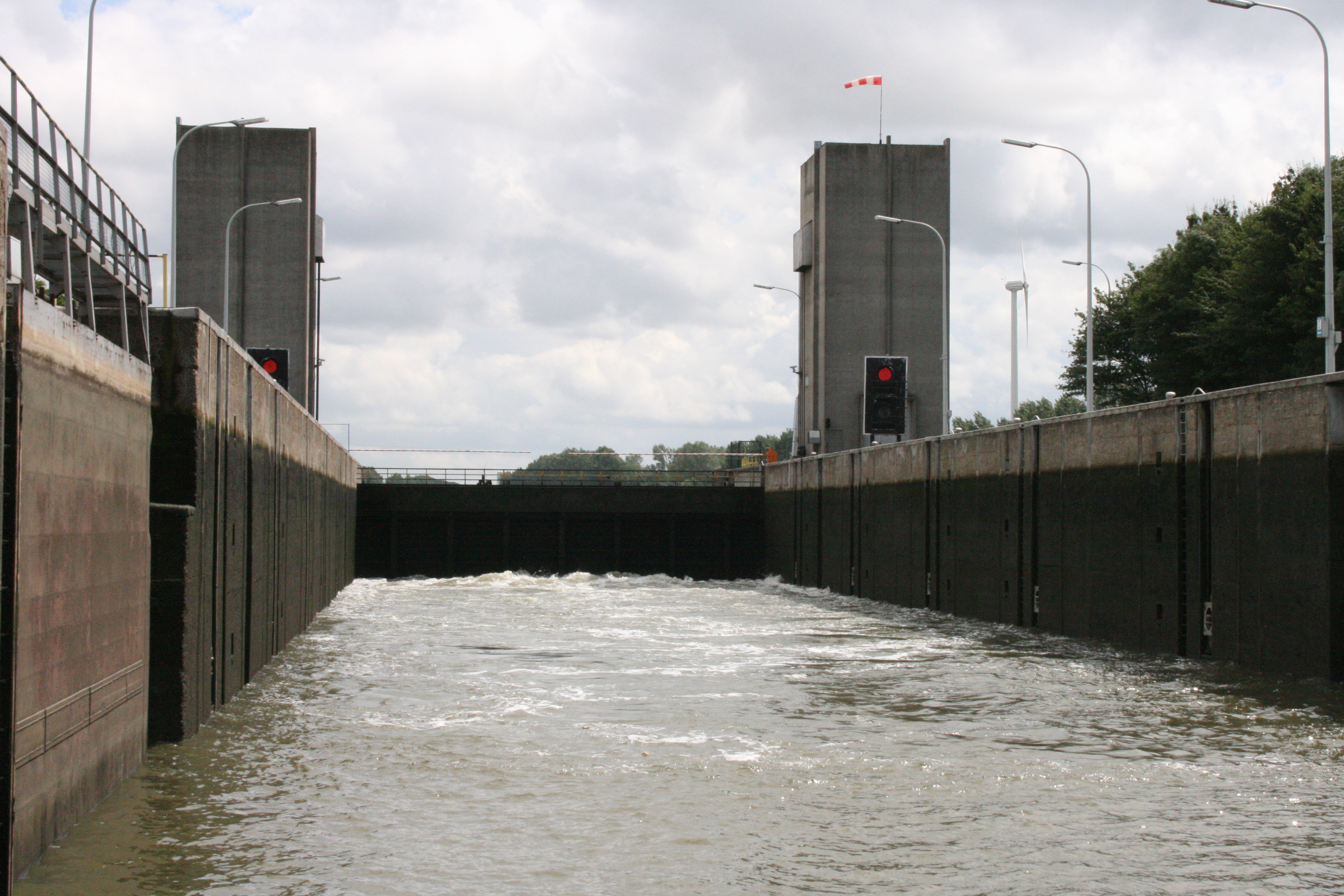 Brussels-Scheldt Maritime Canal (Belgium). Zemst lock